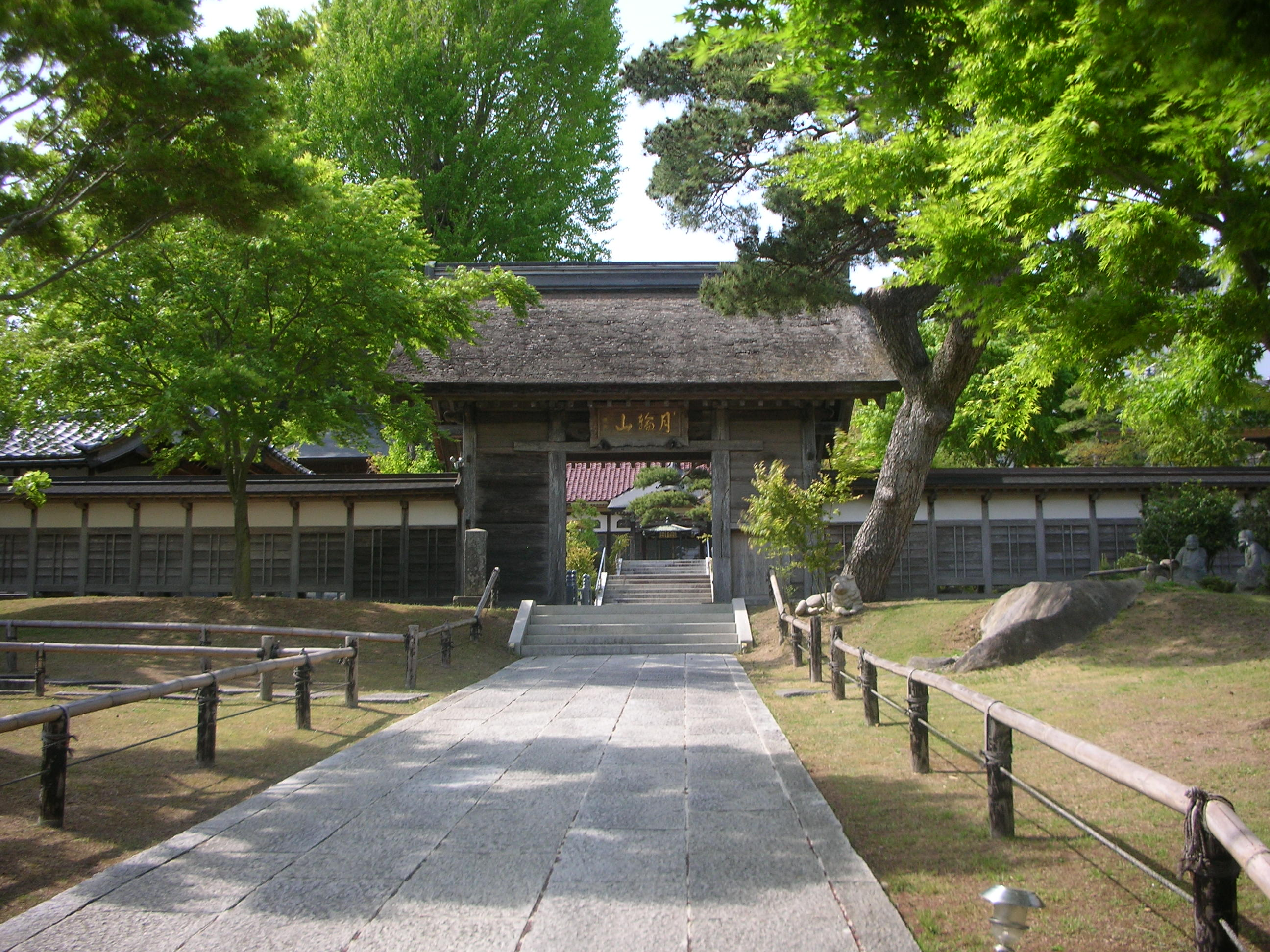 Sanmon (temple gate) at the Korinji temple in Tome City, Miyagi Prefecture, Japan